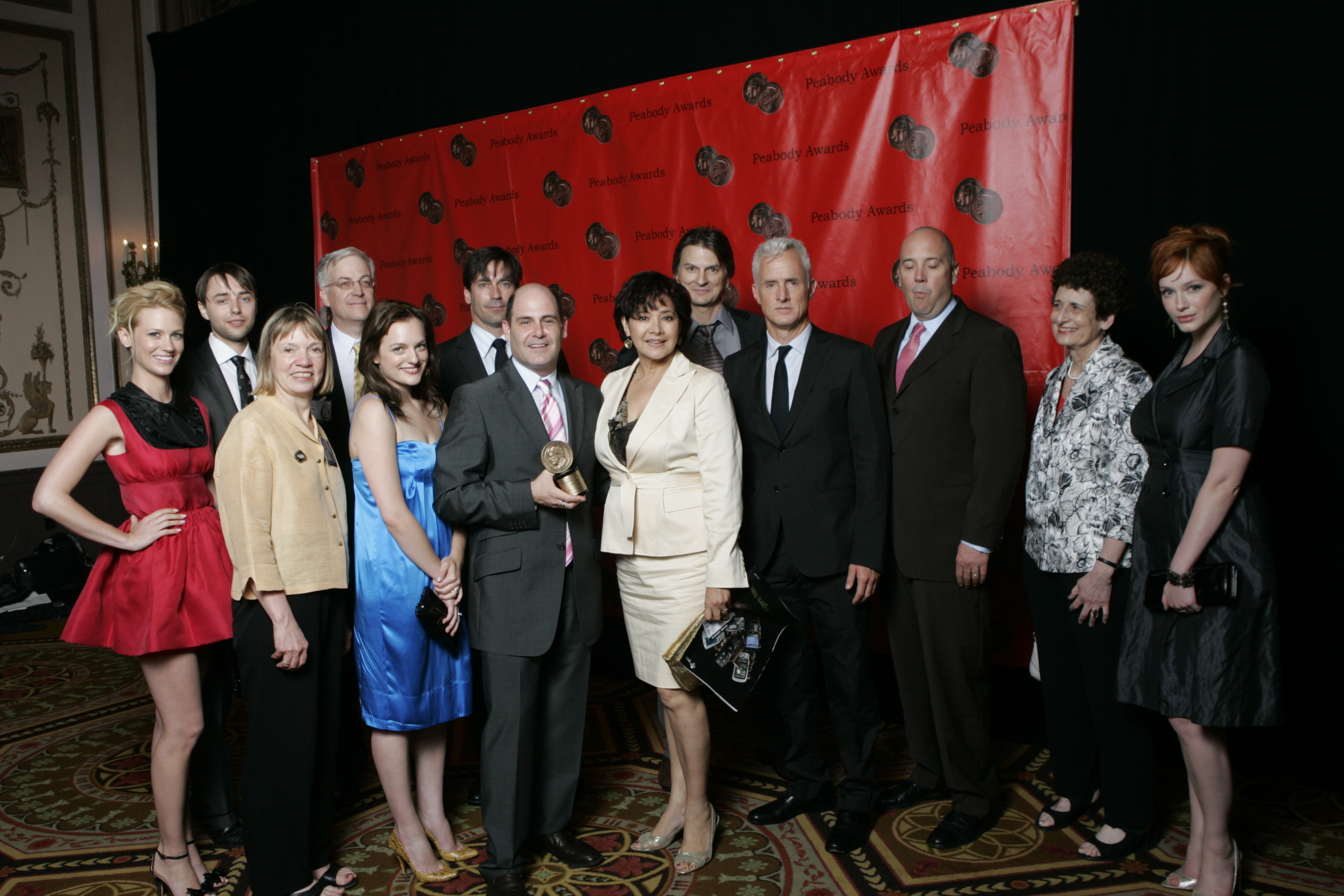 January Jones, Elisabeth Moss, Vincent Kartheiser, Matthew Weiner, Christina Hendricks, Jon Hamm and John Slattery 67th Annual Peabody Awards Luncheon Waldorf=Astoria Hotel New York, NY USA June 16, 2008